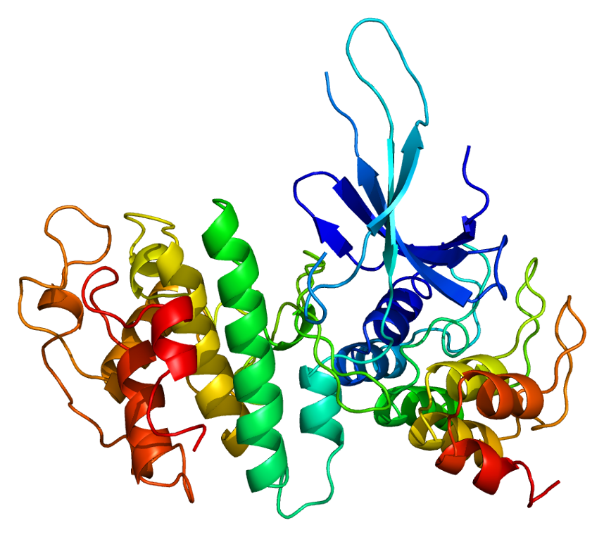 Structure of the CDK6 protein. Based on PyMOL rendering of PDB 1bi7.